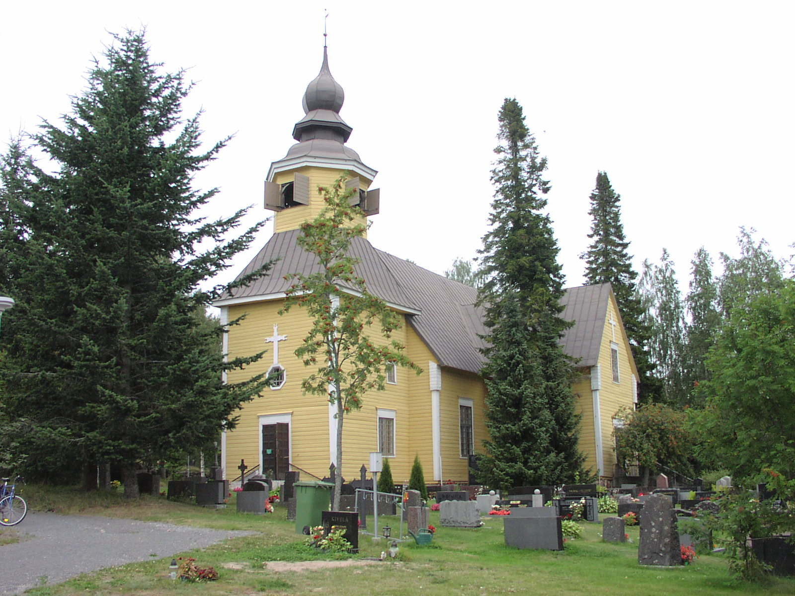 Tarvasjoki Church in Tarvasjoki, Finland. Completed in 1779. Churchbuilder: Mikael Hartlin-Piimänen.